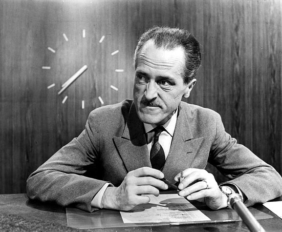 Olle Björklund in the studio 1960.